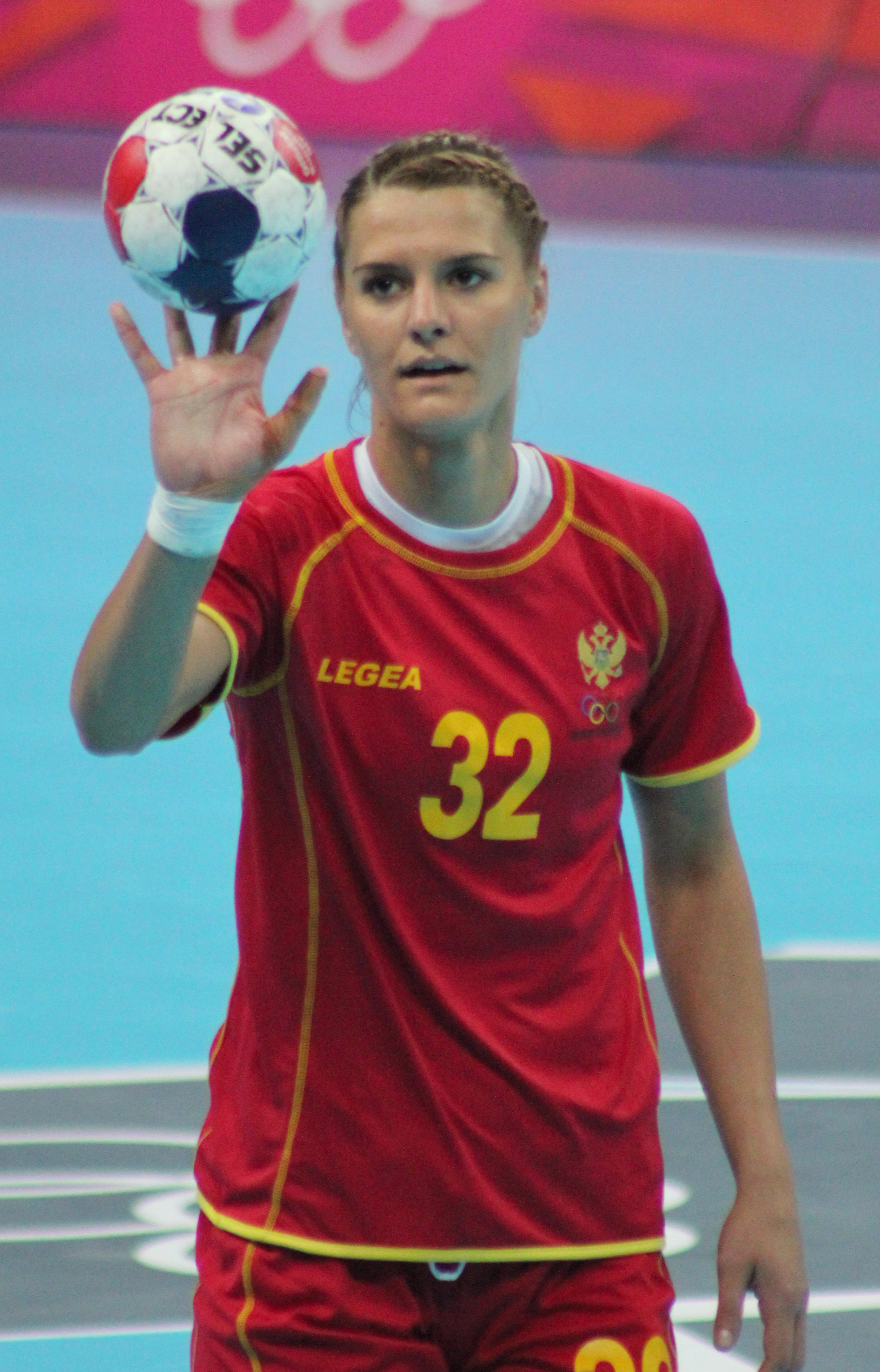 Katarina Bulatović at the London 2012 Olympics.